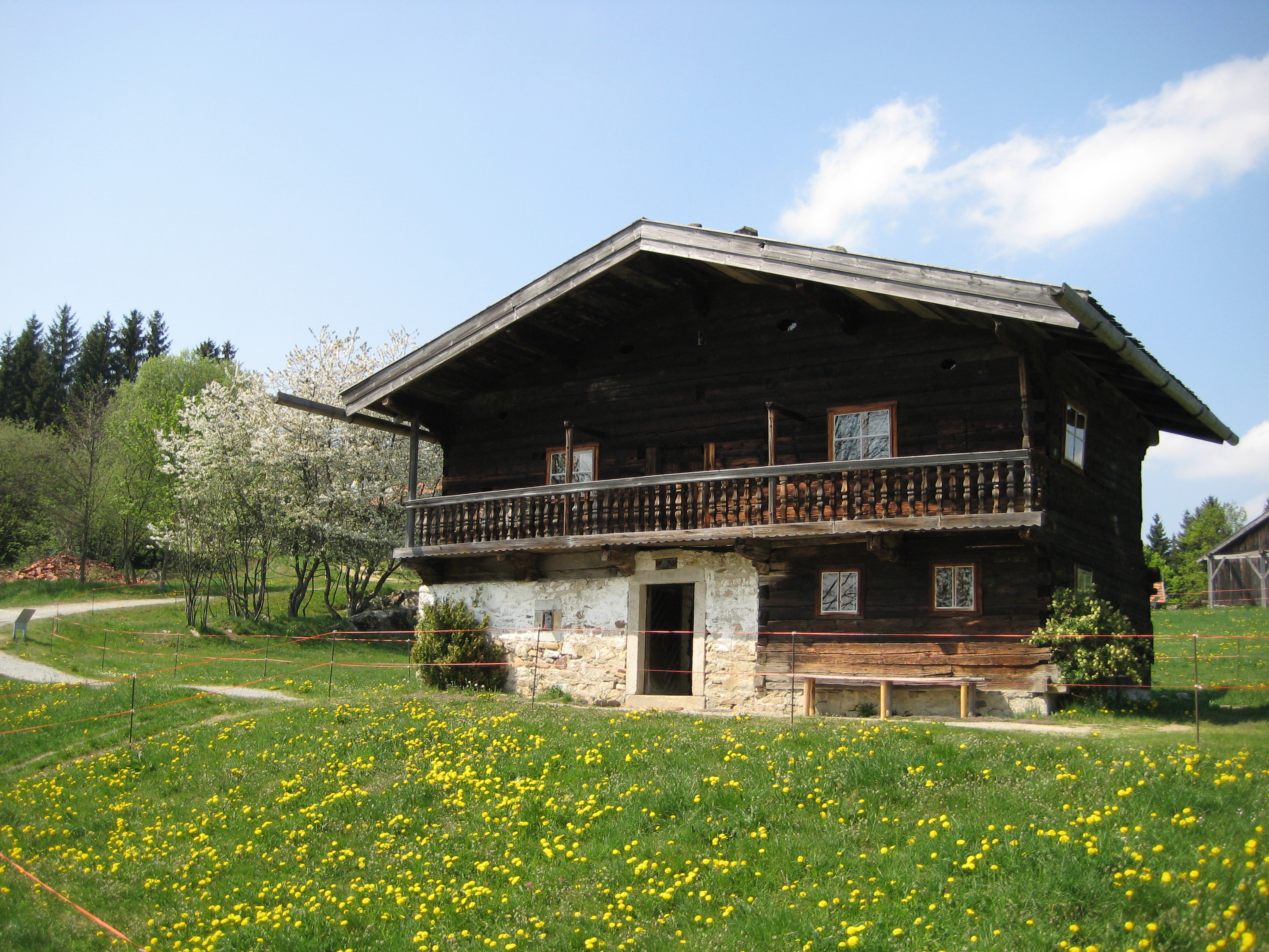 Country life museum Finsterau, Bavarian Forest